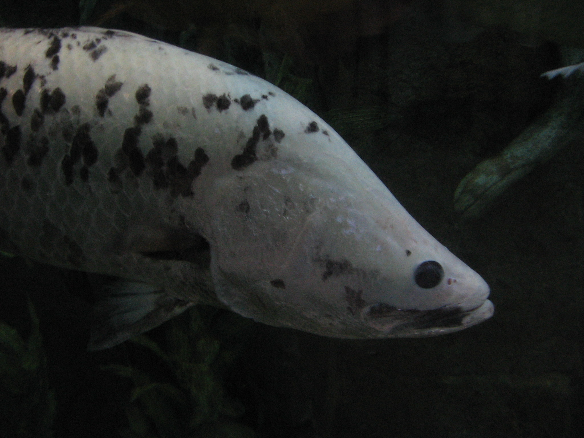 Barramundi perch (Lates calcarifer), piebald color morph